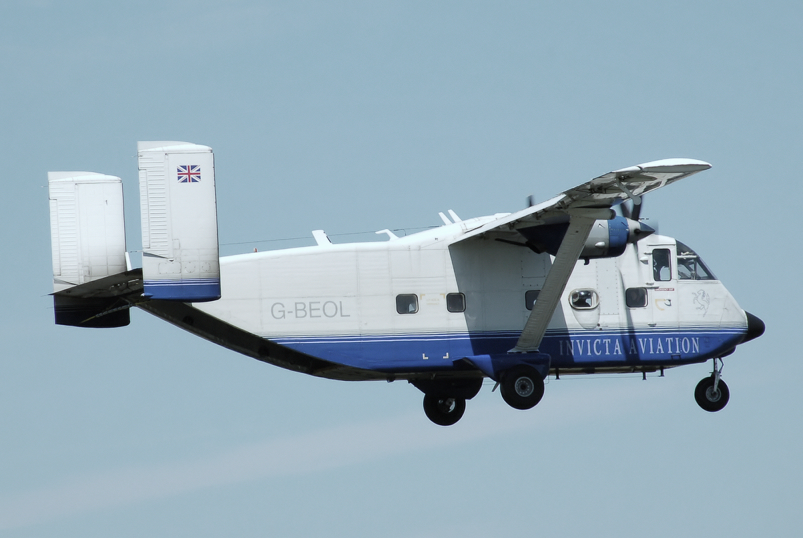 Short Skyvan SC-7 (G-BEOL) of Invicta Aviation at the Cotswold Air Show at Cotswold Airport, Kemble, Gloucestershire, England. Later in the day it was used to drop a parachute team.